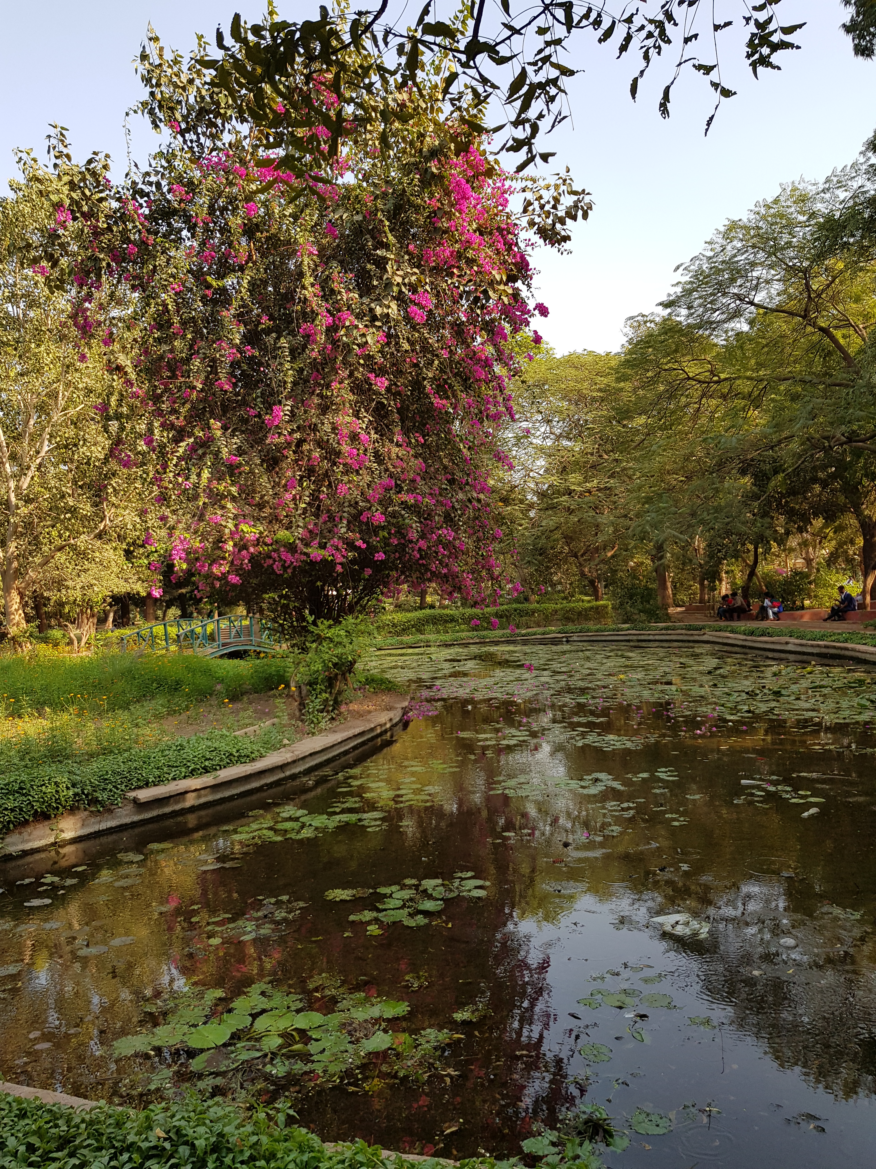 Law Garden, Ahmedabad